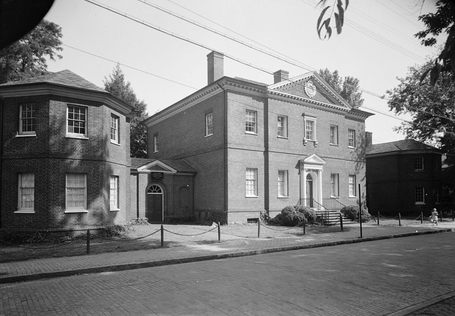 Hammond-Harwood House — 19 Maryland Avenue & King George Street, Annapolis, Anne Arundel County, MD. On the National Register of Historic Places. Image courtesy of the federal HABS—Historic American Buildings Survey of Maryland.